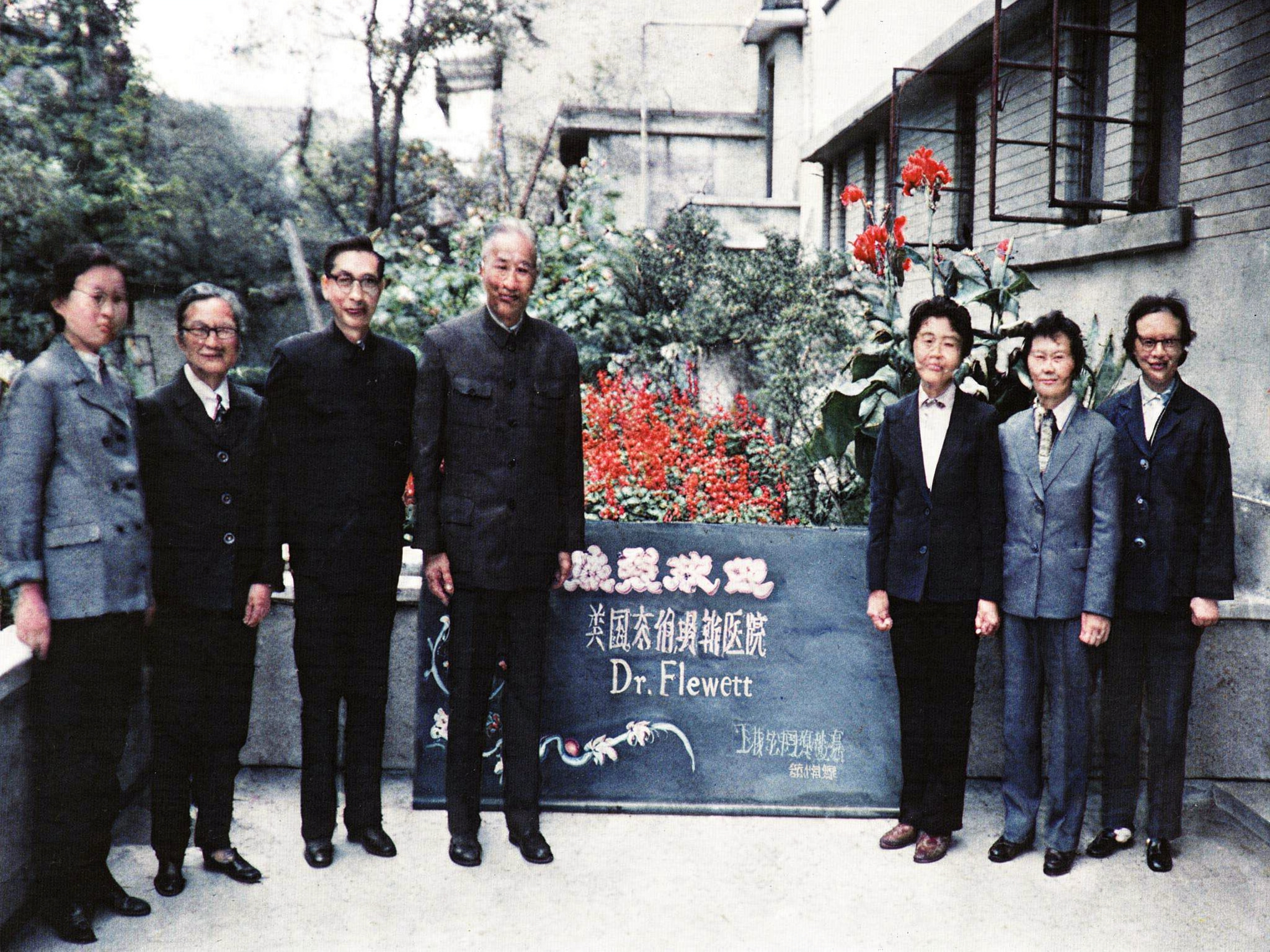 Notice of virologist T. H. Flewett's lecture in China, 1984